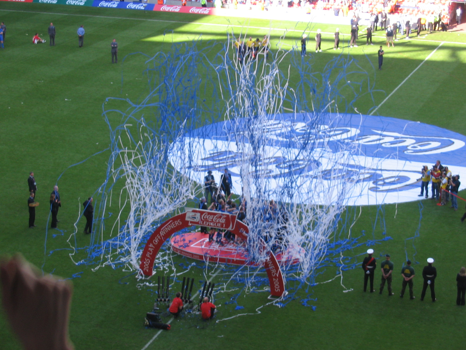 Sheffield Wednesday Lift the 2005 League One Playoff Trophy Homemade Image